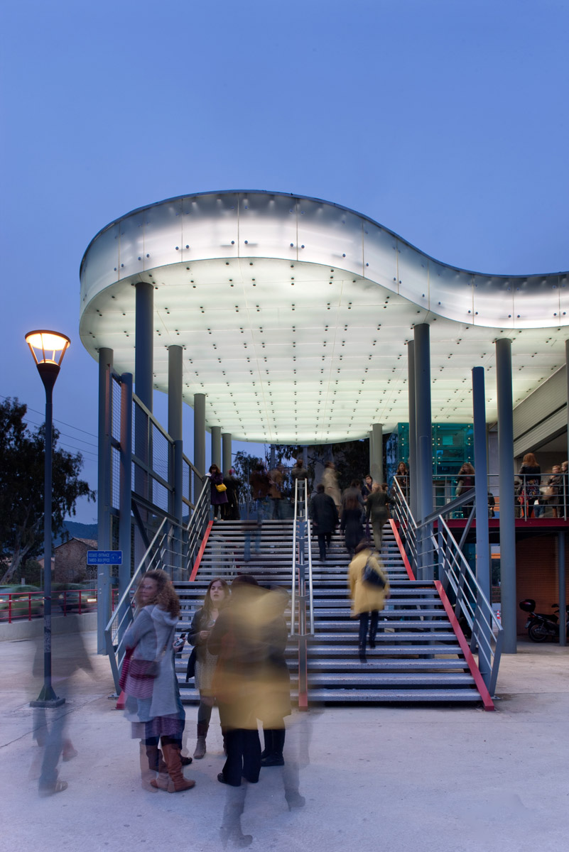 Athens Badminton Theater / Venue